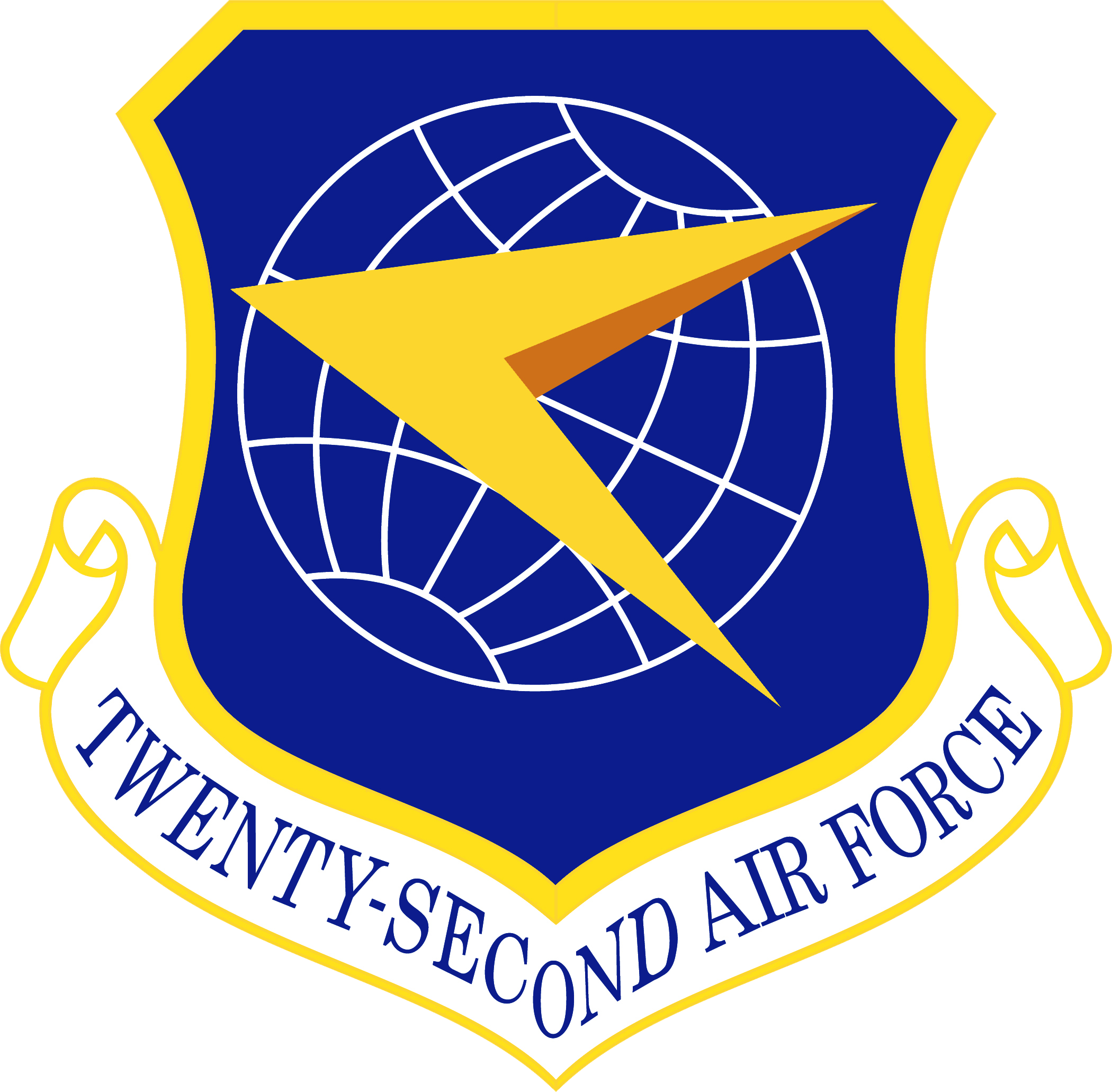 Emblem of the 22d Air Force of the United States Air Force